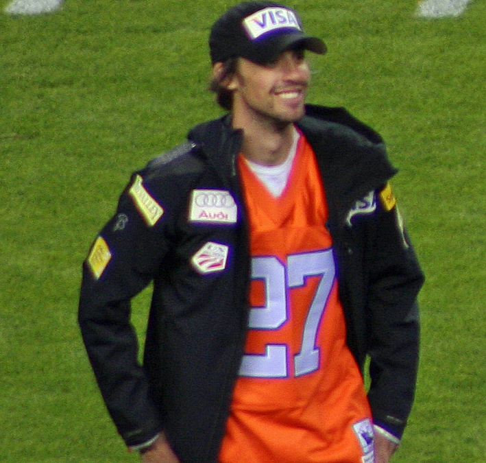 Johnny Spillane, a member of the United States Olympic Team, and a Nordic Combined skiier.